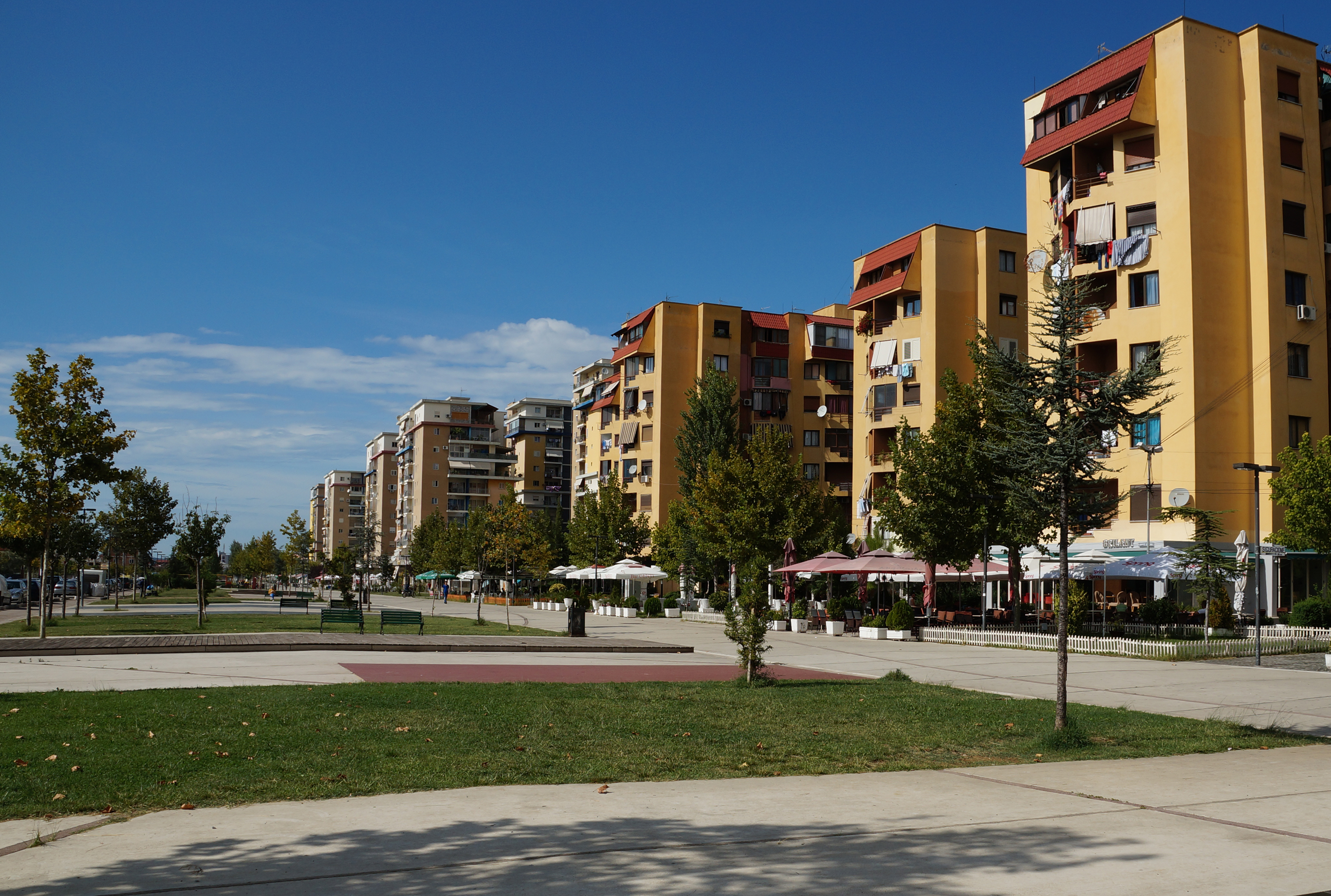 Former Lapraka Airfield in Tirana, Albania – now turned into a park